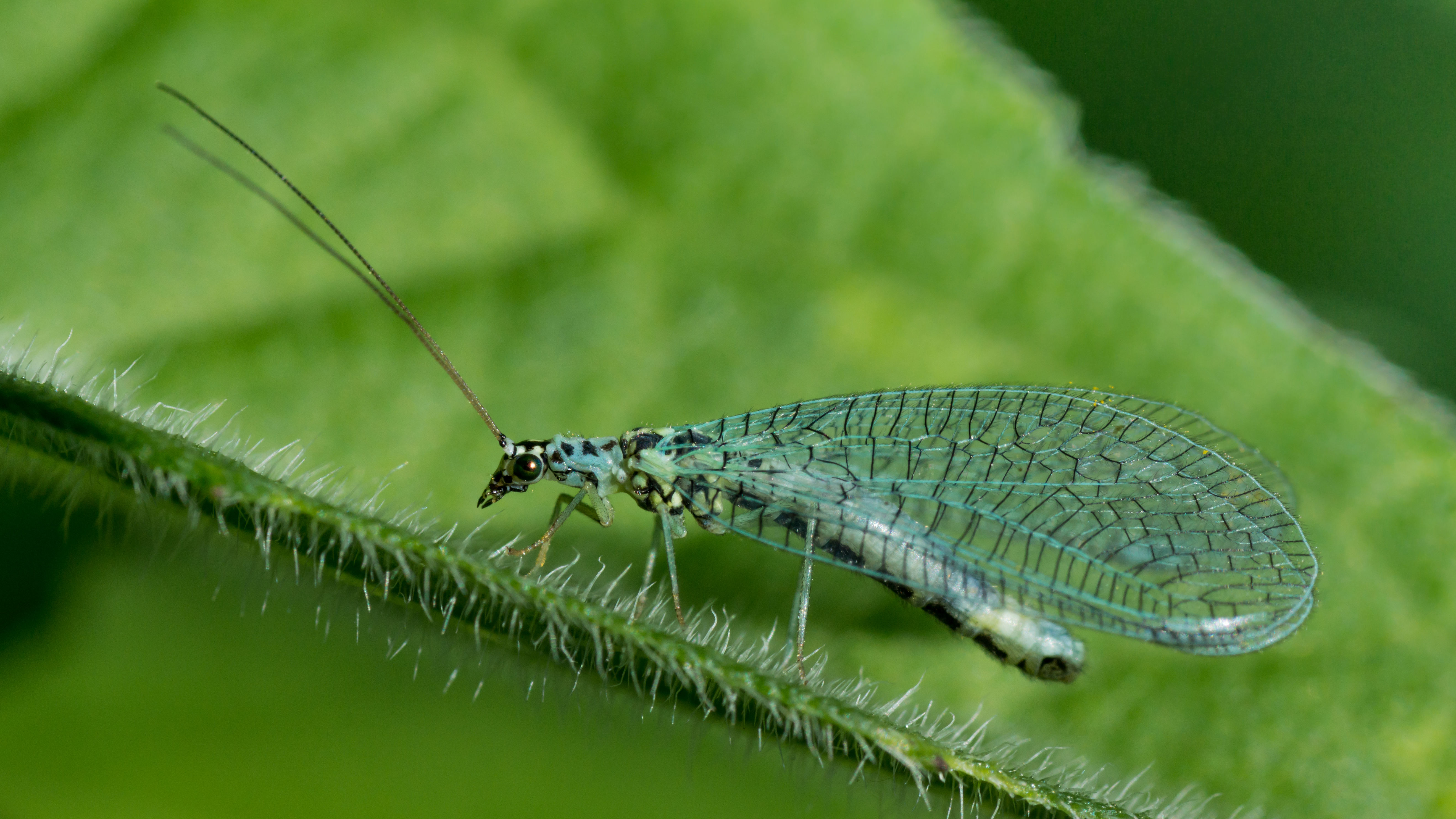 Green lacewing Chrysopa perla